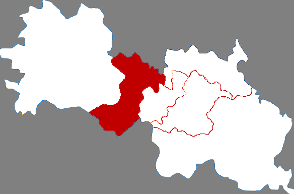 Location of Gongjing District in Zigong City, China